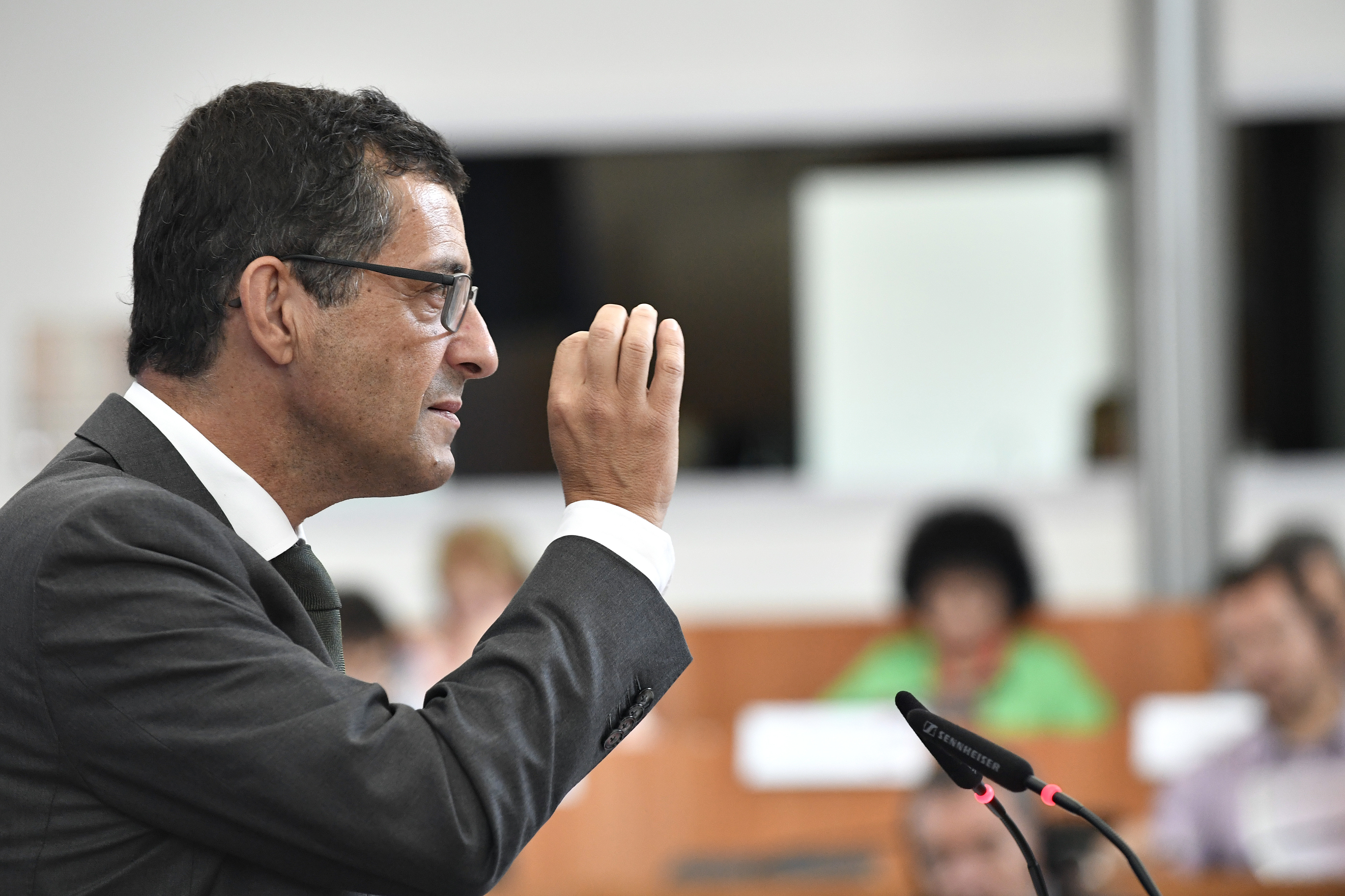 Seminar of the PES Group in the European Committee of the Regions Parliament of the Brussels Capital Region Brussels, 21 June 2017